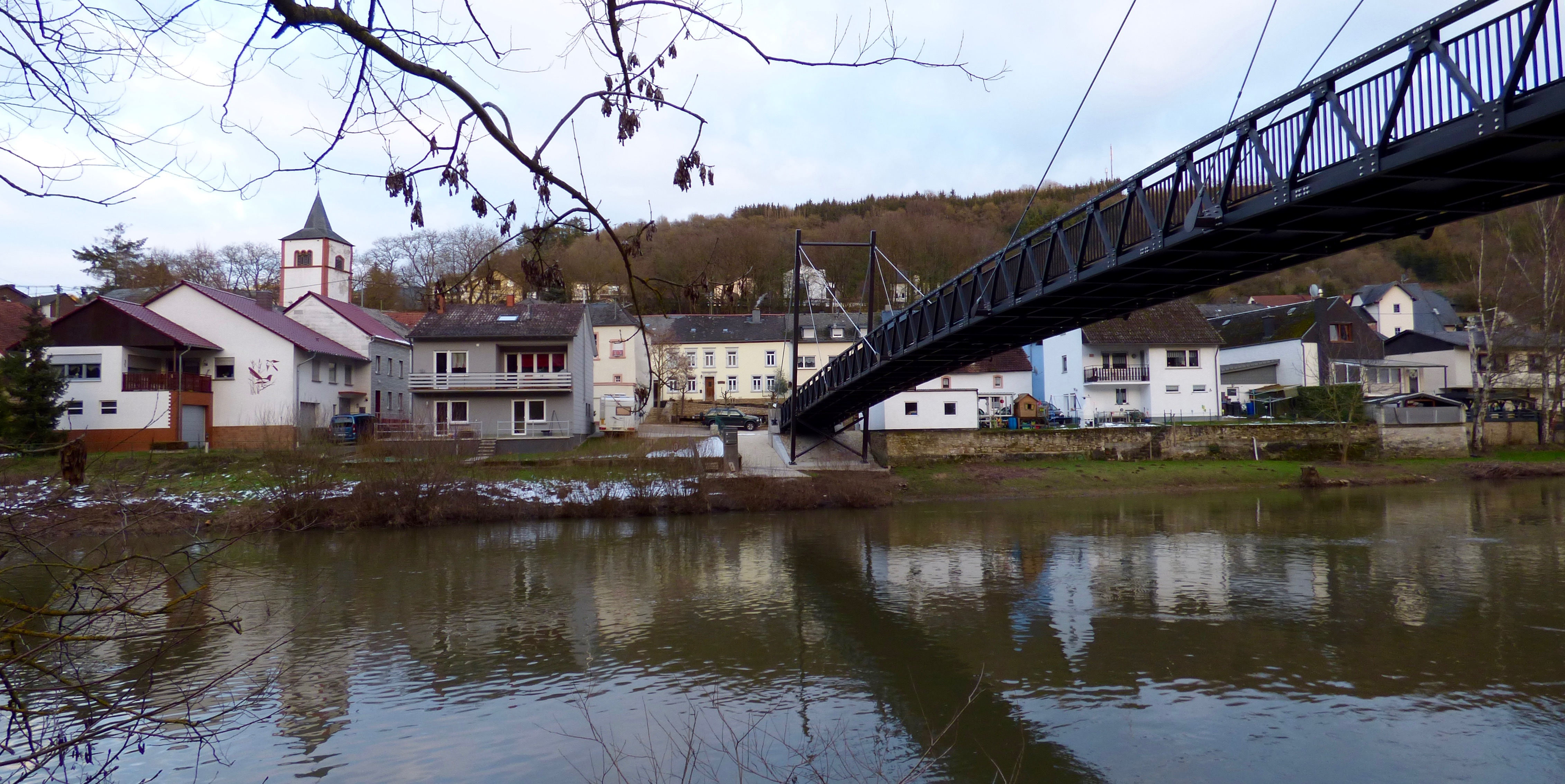 view on the pedestrian bridge from Moersdorf